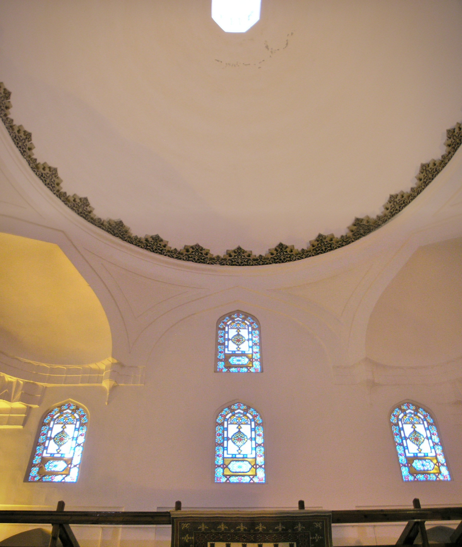 The turkish bath (hamam) constructed by Haseki Hürrem Sultan, known in the West as Roxelana or Roxelane. Located in Istanbul close to the Hagia Sophia.